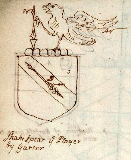 Copy of a drawing of William Shakespeare's coat of arms by Ralph Brooke, York Herald,(mistakenly identified as Peter Brooke in Schoenbaum's William Shakespeare: a Documentary Life (1975)